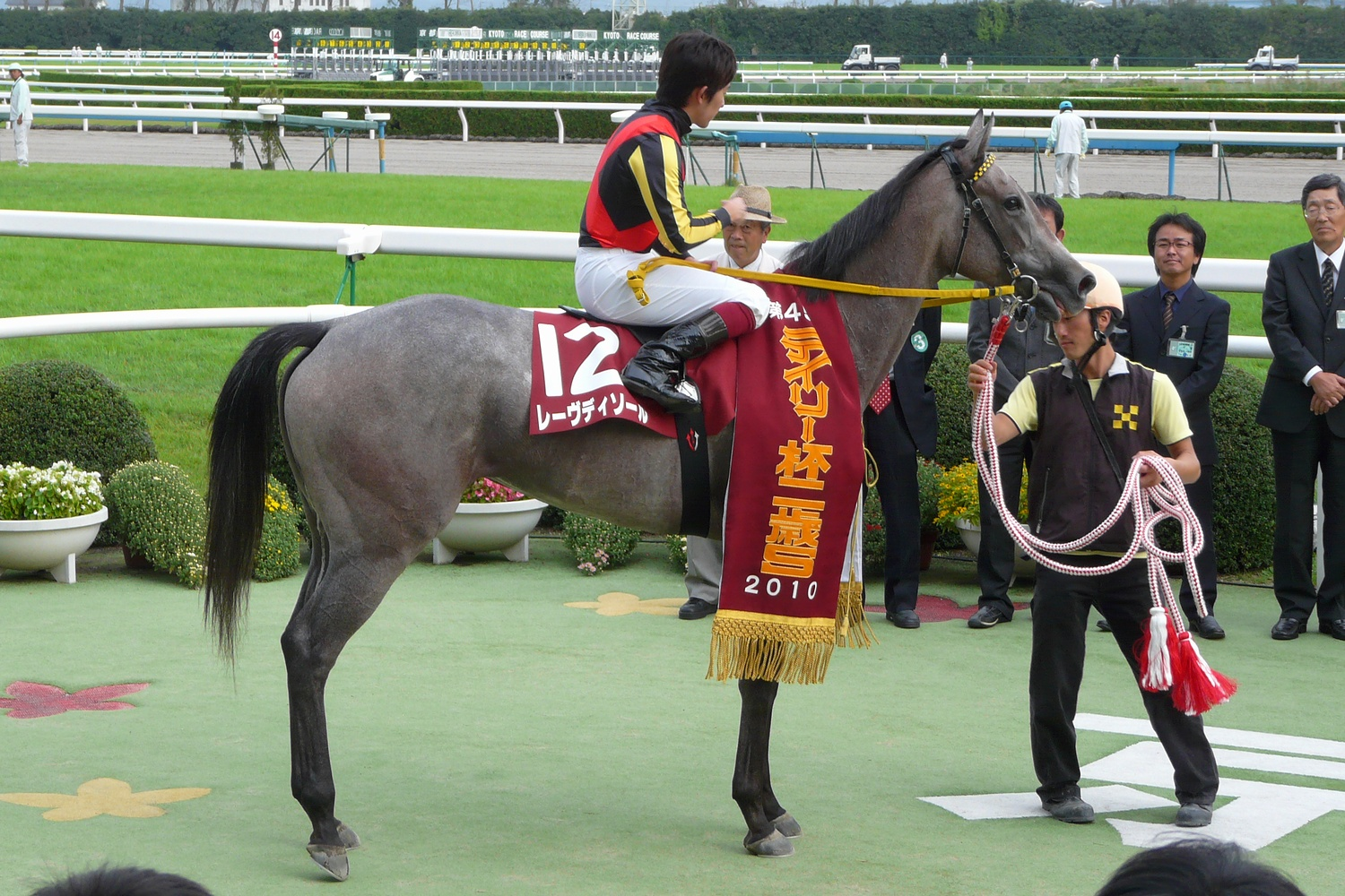 Reve-d'Essor20101016